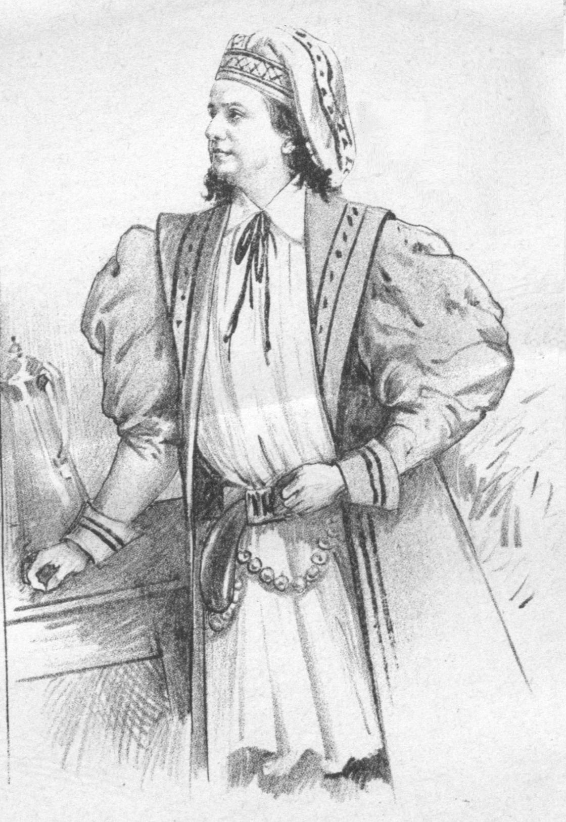 Portrait of Siegmund Natzler (1862-1913), Austrian actor. Cropped from a gallery of actors of Carltheater in Vienna who performed "Die Lachttaube" composed by Eugen von Taund.